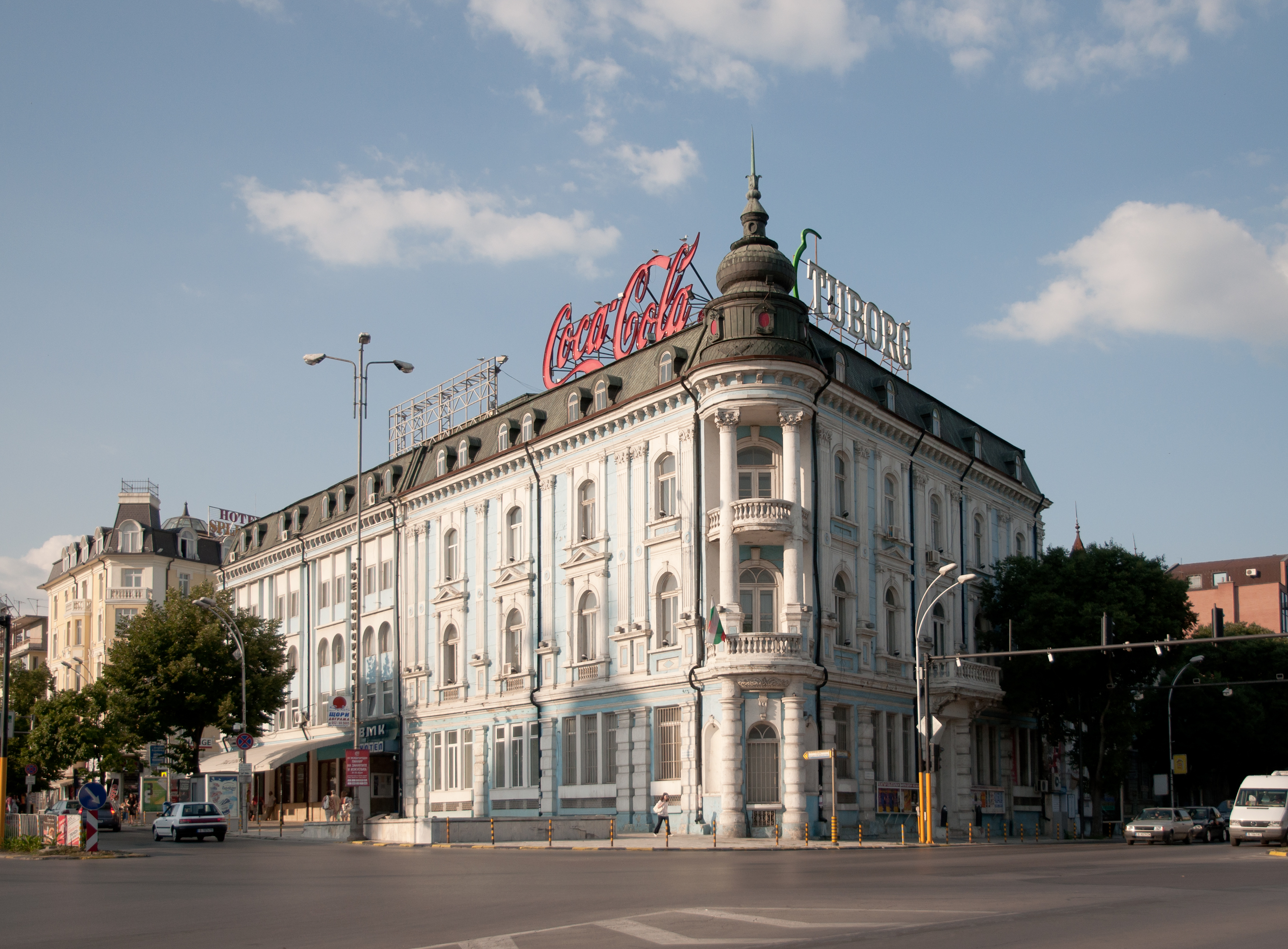 The Naval Club in Varna, Bulgaria. Built in 1897-1899.